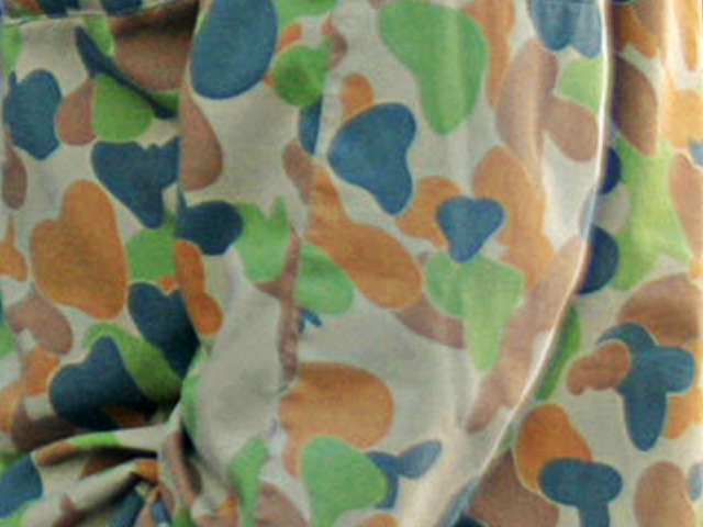 Operating out of the Fort Gordon Battle Command Battle Lab, international exchange officers Maj. Scott S. Youngson (left), British Royal Corps of Signals, and Maj. Clay Campbell, Royal Australian Signals Corps, run simulations on a prototype battle command on the move suite designed to operate in a Humvee.